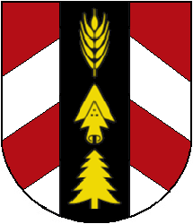 Shield of the municipality of Drei Höfe, Canton of Solothurn